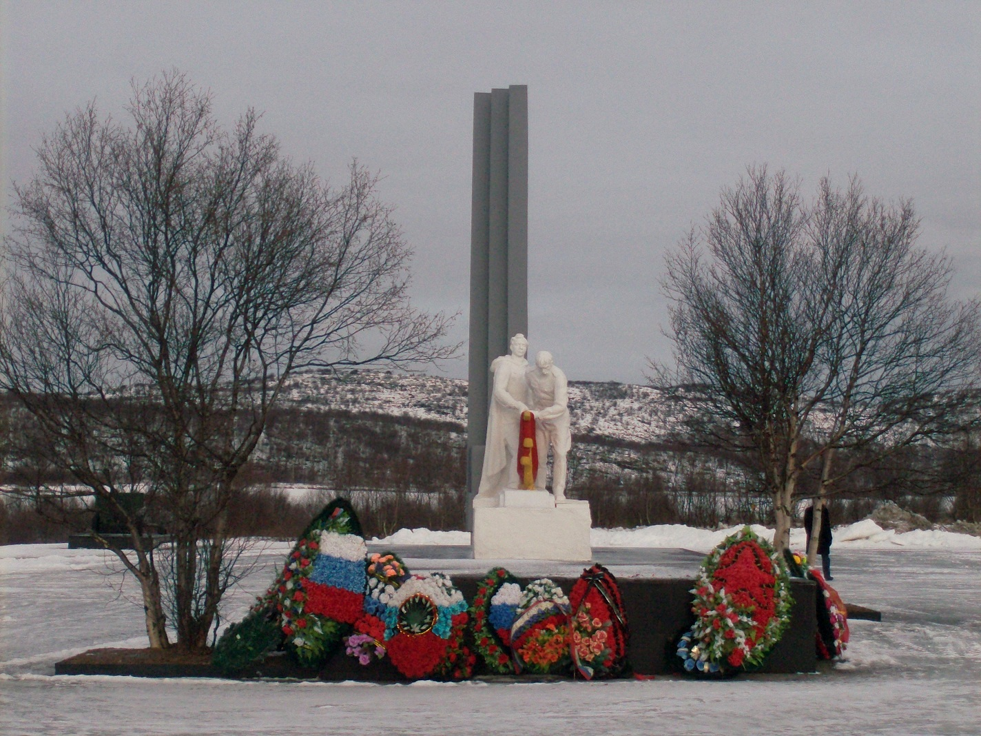 This "Memorial for the Defenders of the Soviet Arctic" is 70 km west of Murmansk, on the road to the Norwegian border and close to the Zapadnaya Litsa River. From 1941 - 1944 the Litsa River was the frontline between German/Finnish troops trying to take Murmansk, and Soviet troops defending the city (in which they succeeded). Thousands perished here in the tundras.